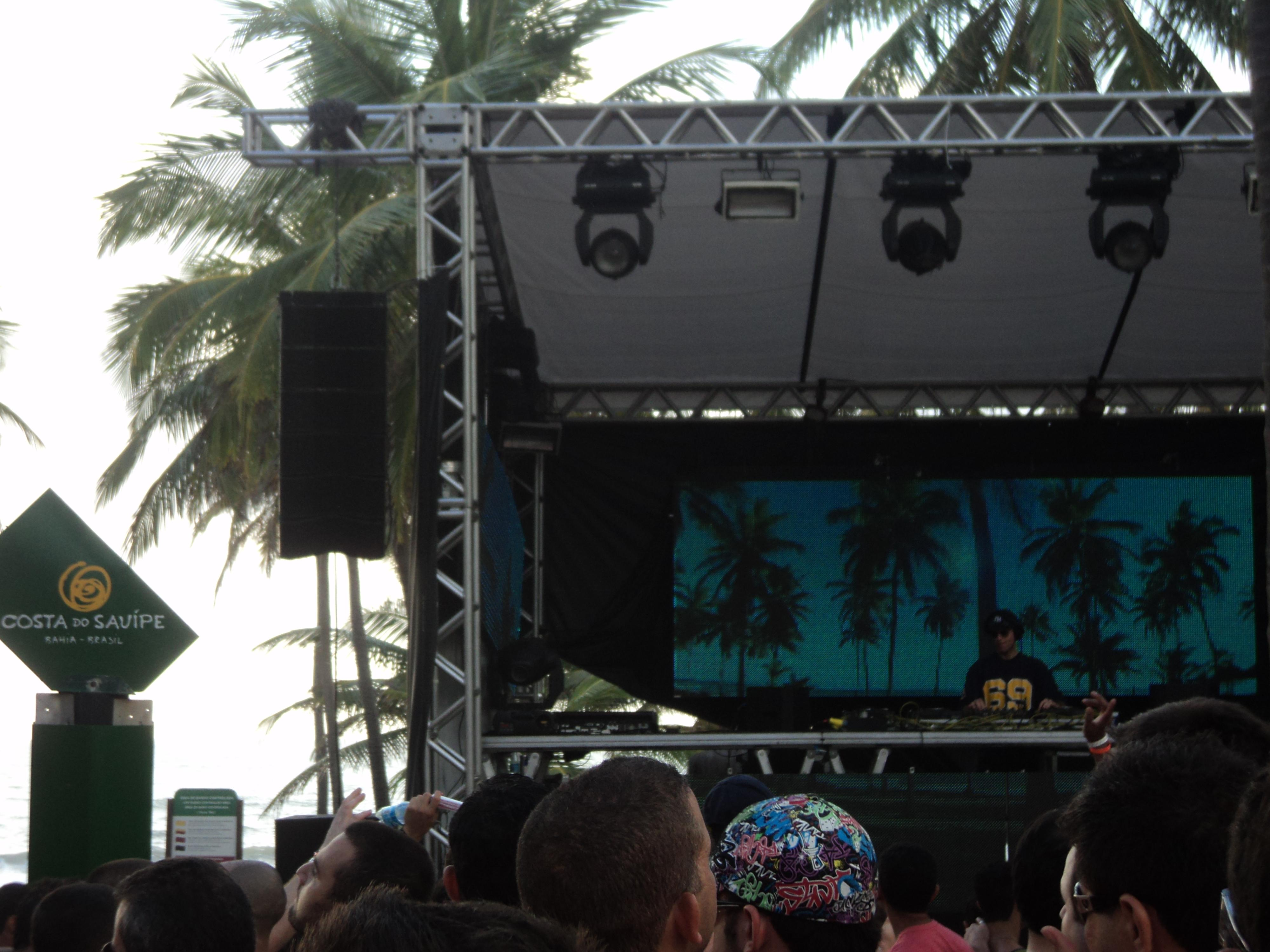 The Austrian-American DJ Peter Rauhofer in 2010 Hell & Heaven, in Sauípe Coast, Brazil.